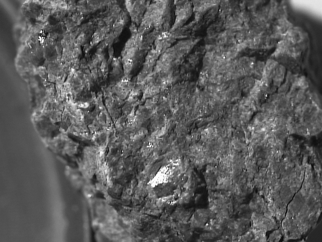 a photograph of the surface of orthopyroxenite meteorite ALH84001.